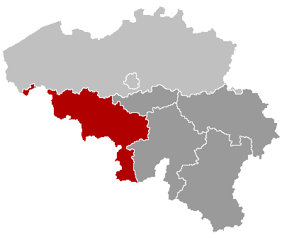 Map made by User:Morwen and put under the GNU Free Documentation License.